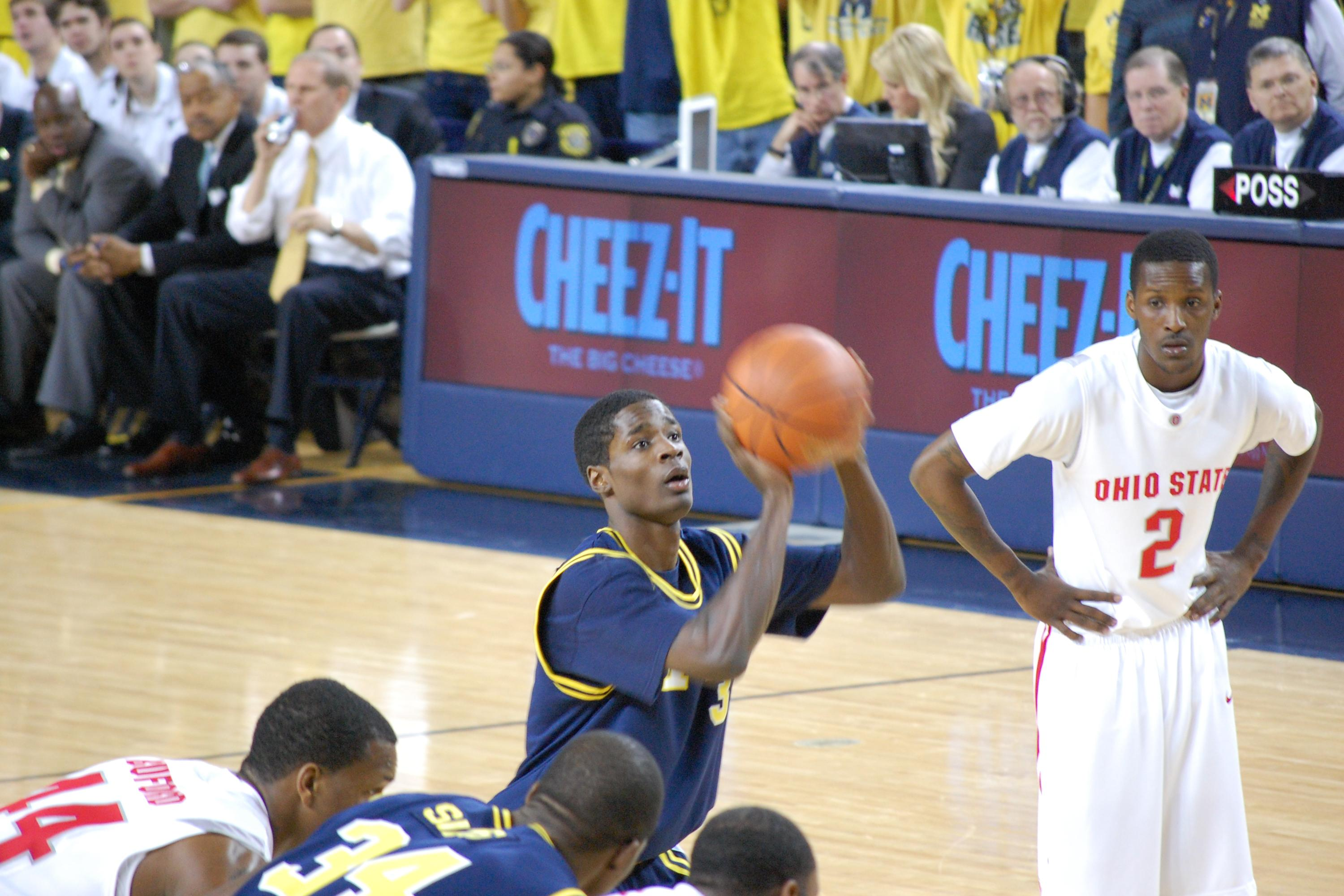 Manny Harris shooting Free Throws